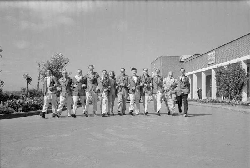 Holiday Camp Gets Going Again- Everyday Life at a Butlin's Holiday Camp, Filey, Yorkshire, England, UK, 1945 A team of twelve Red Coats stride towards the camera, arm-in-arm in the sunshine, as they prepare for another days work at the Butlin's Holiday Camp at Filey. The job of the Red Coats, according to the original caption, is "to see to it that each individual camper has a jolly time, twelve hours on end, each day of the Butlin hospitality". They are walking past the Gloucester House Dining Hall, located on the south side of the camp.